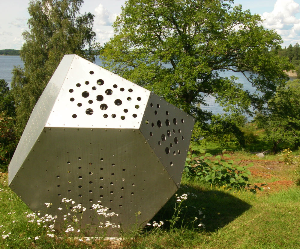 Görvälns slott, "Molekylär form" by Marta Hage